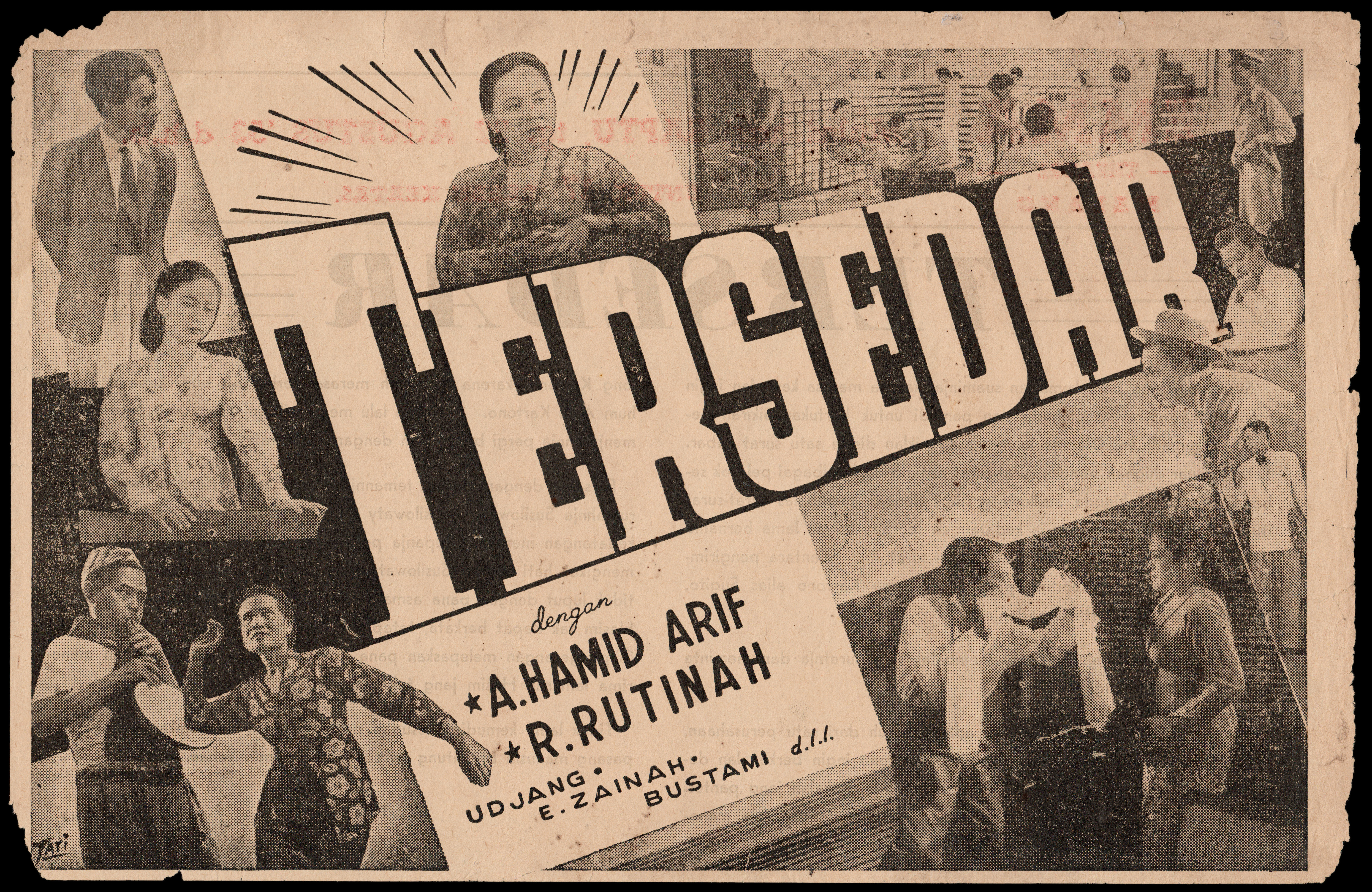 Obverse for a flyer advertising the 1953 Indonesian film Bermain dengan Api (here advertised as Tersedar).